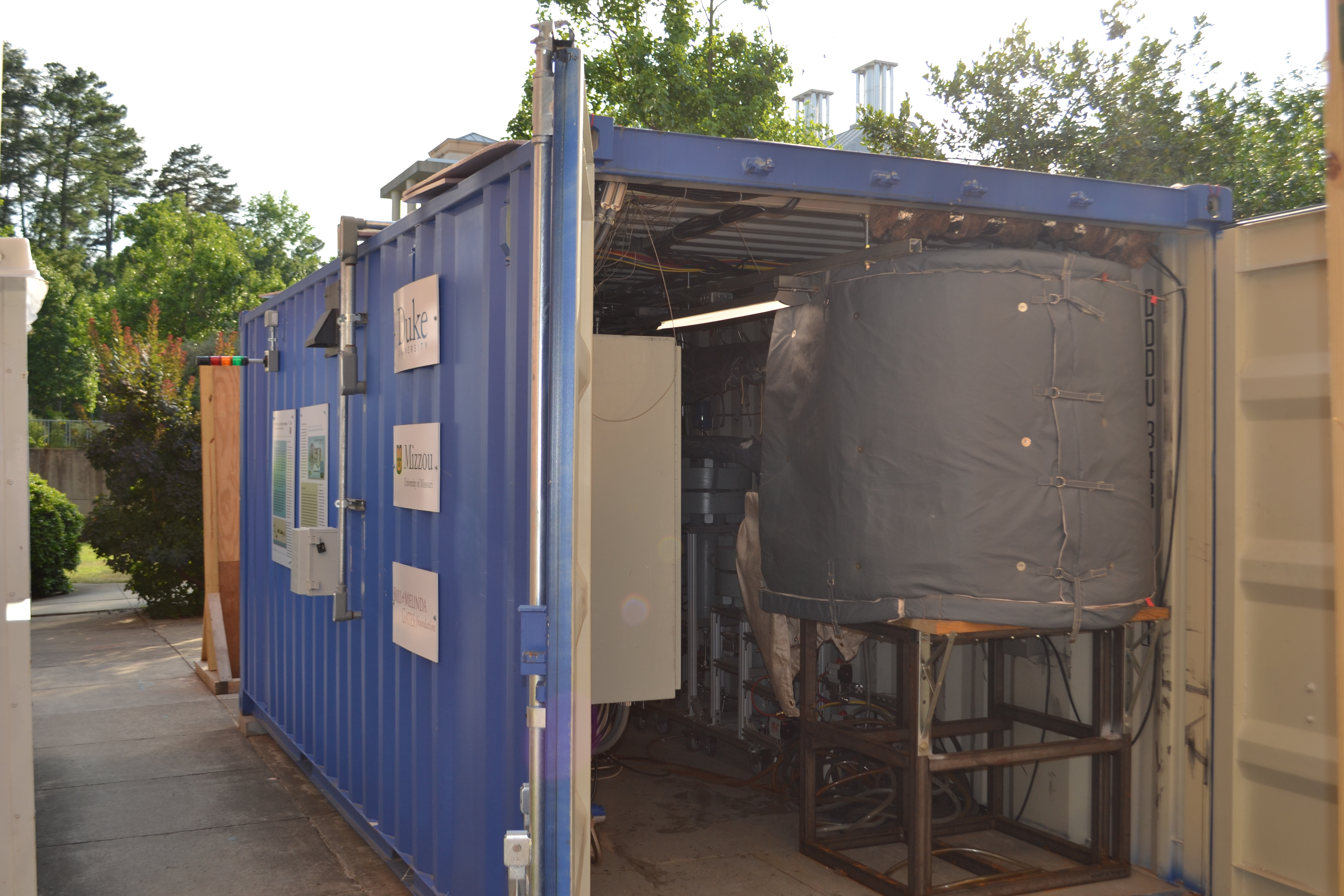 Pilot scale omniprocessor for fecal sludge treatment in a container at Duke University, USA